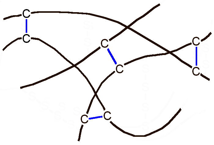 Peroxide vulcanization.